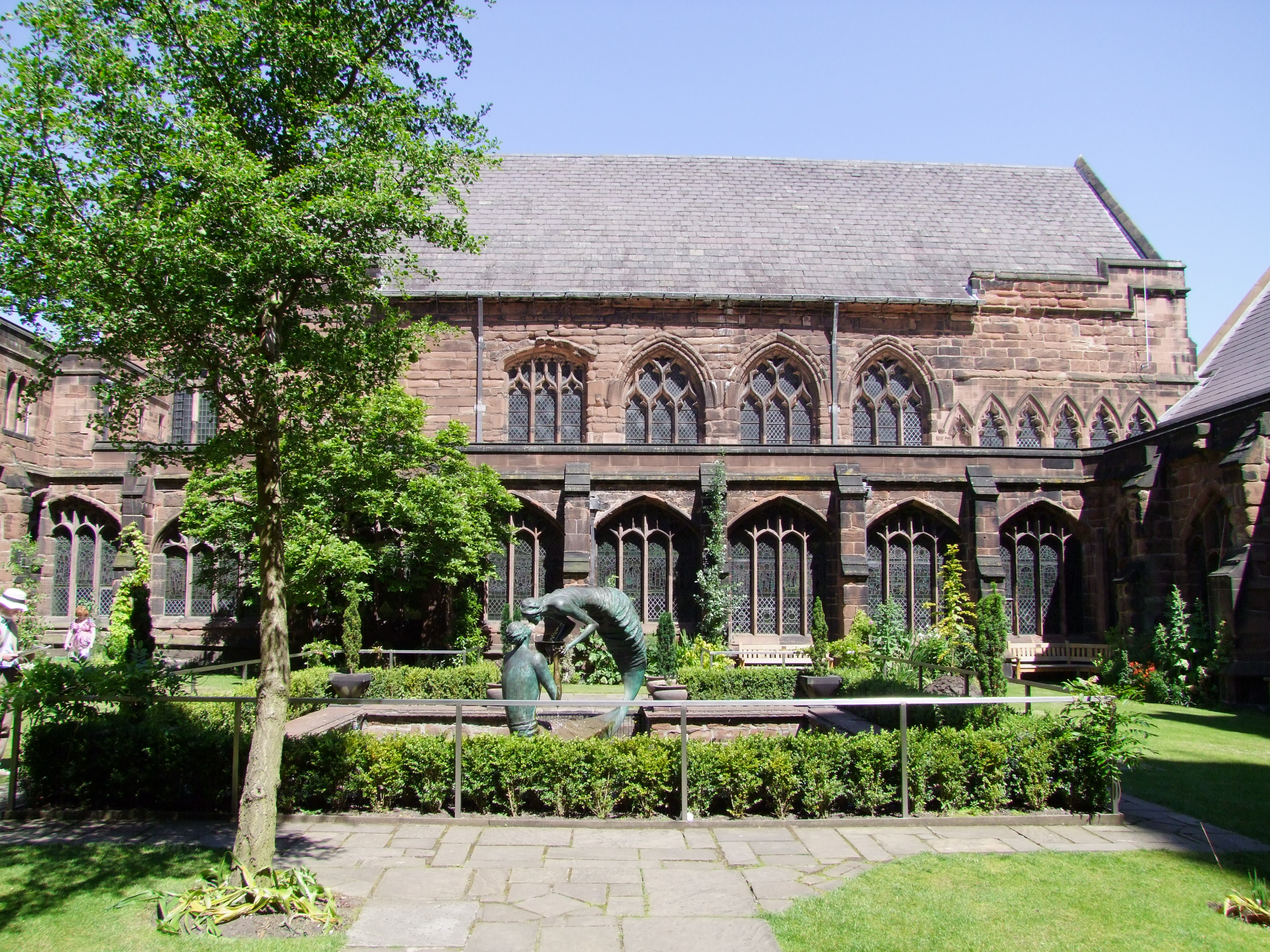 View of the Cloisters Garth Chester Cathedral